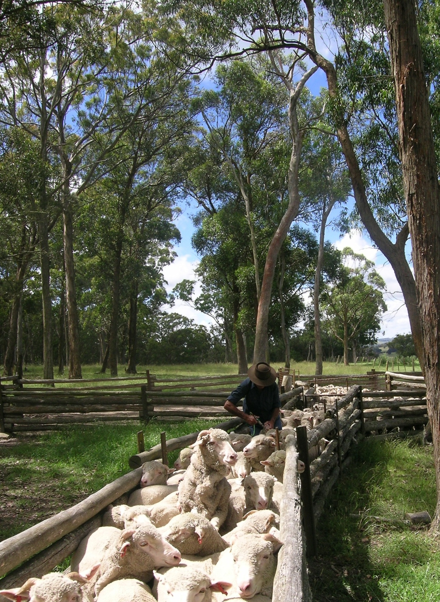 Drenching Merino hoggets in rail yards, Walcha